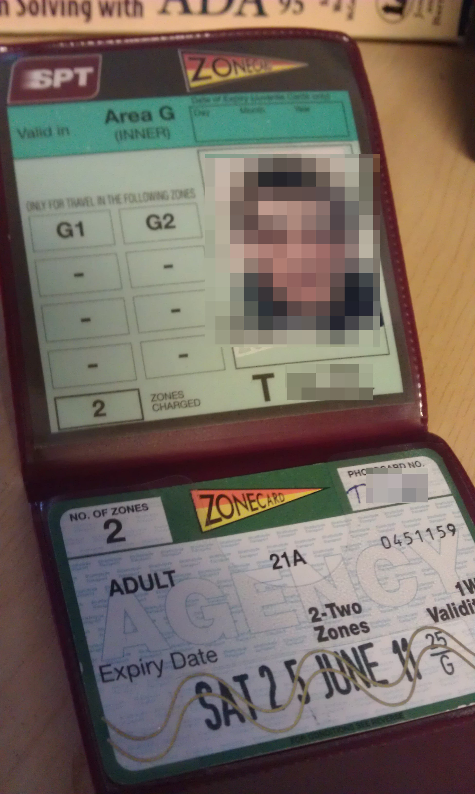 A photo of an SPT ZoneCard taken by myself.